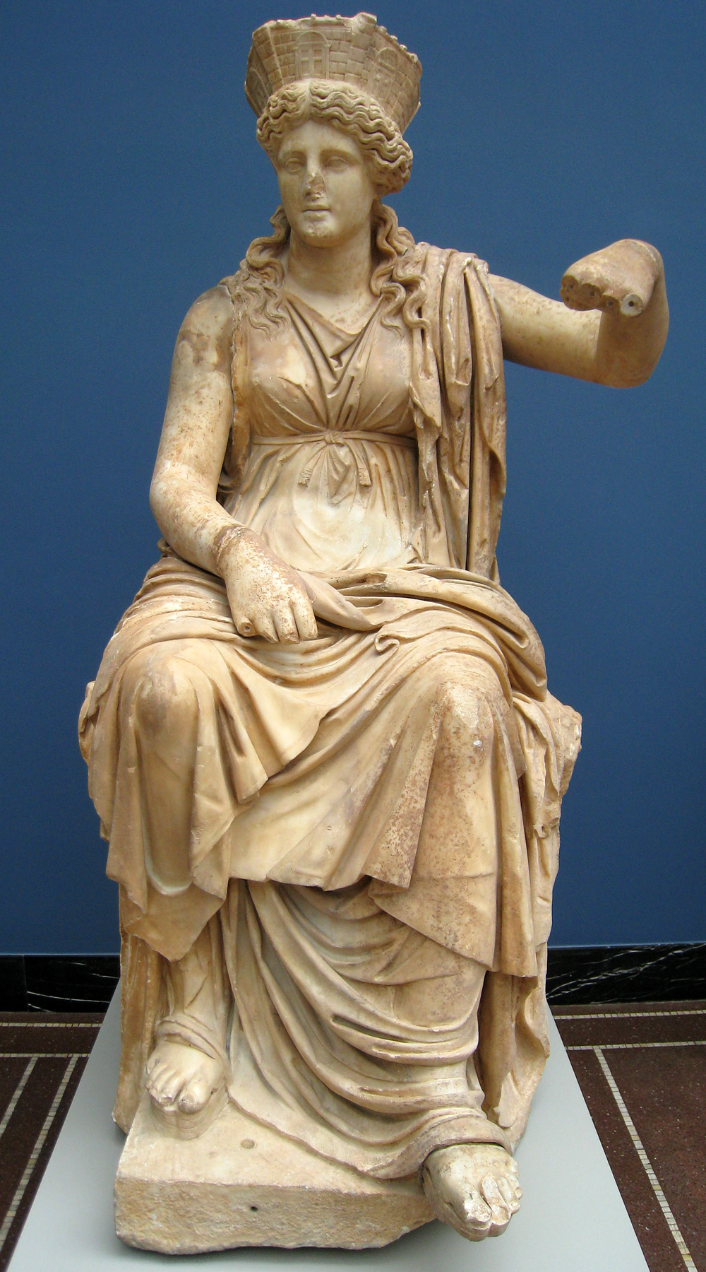 Marble statue of Cybele from Formia in Lazio, circa 60 BCE. From the collection of the Ny Carlsberg Glyptotek. Item number IN 480.